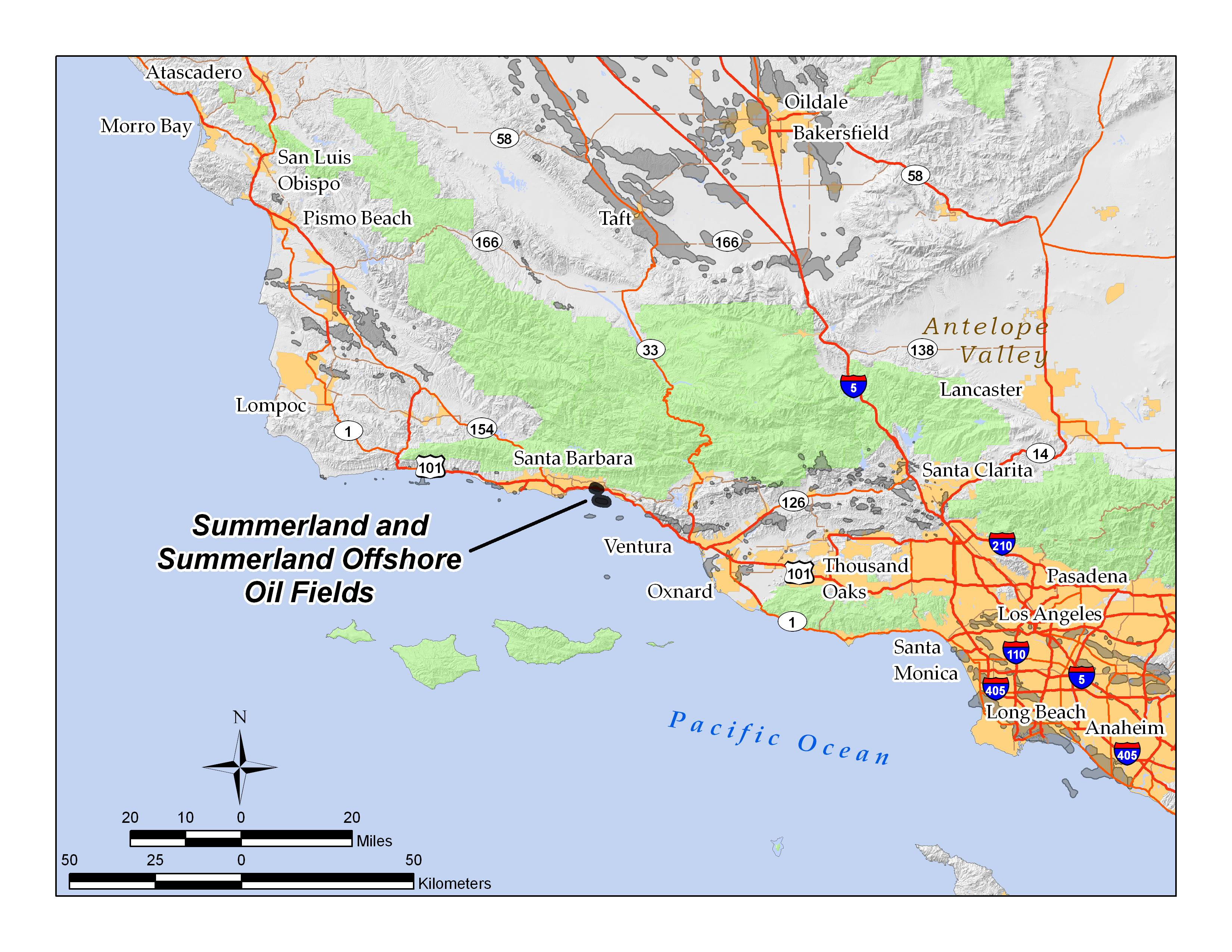 Location of Summerland oil field; ArcGIS 9.3; by self